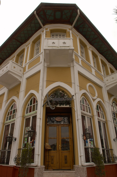 Example of civil architecture in Manisa, Turkey, a house built in the 1930s, now used for community purposes